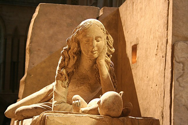 Lincoln Cathedral: Virgin & Child Detail of the Nativity scene in St.Mary's Cathedral 302936